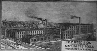 catalog image